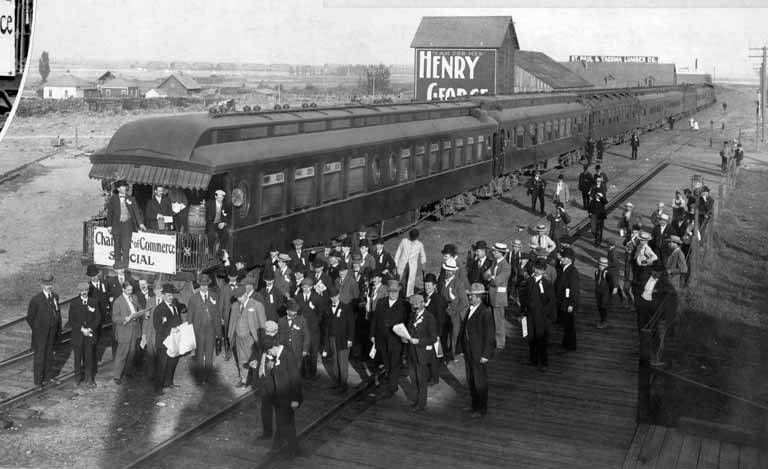 From an album entitled: Seattle Chamber of Commerce Business Men's Excursion to the Inland Empire, September 22-27, 1908 Printed on album page: Train at Depot at Kennewick PH Coll 20.4d Subjects (LCTGM): Railroad stations--Washington (State)--Kennewick; Business people--Washington (State)--Kennewick